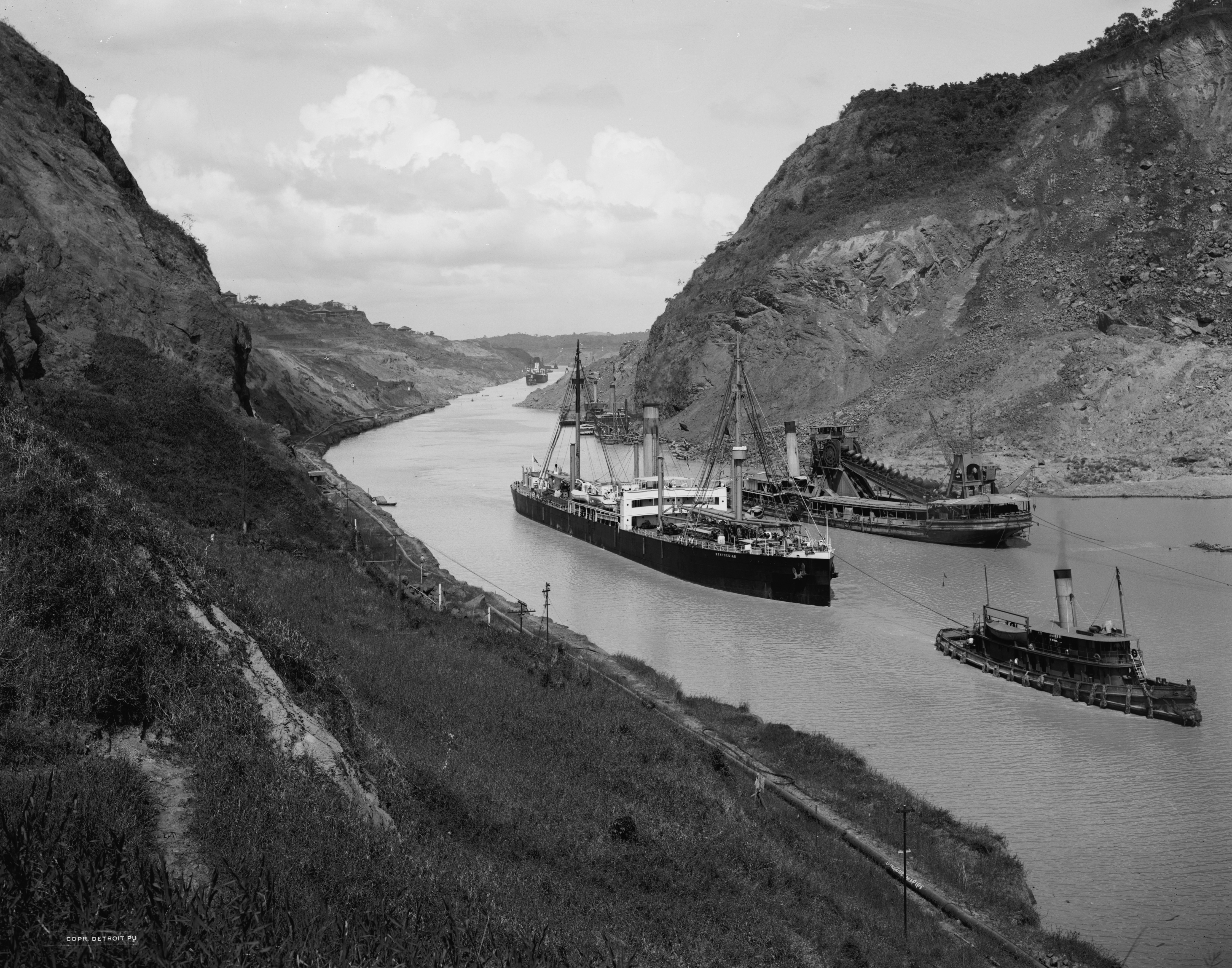 SS Kentuckian (large ship with black hull) transits the Panama Canal, c. 1914–1920 Description from Library of Congress website:TITLE: Culebra Cut, looking north between the two highest hills, Panama Canal CALL NUMBER: LC-D4-73302 [P&P] REPRODUCTION NUMBER: LC-D4-73302 (b&w glass neg.) MEDIUM: 1 negative : glass ; 8 x 10 in. CREATED/PUBLISHED: [between 1910 and 1920] RELATED NAMES: Detroit Publishing Co., publisher. NOTES: "Kentuckian" on left steamship.; "15" on negative. Detroit Publishing Co. no. 073302. Gift; State Historical Society of Colorado; 1949. SUBJECTS: Canals. Ships. Panama--Panama Canal. Panama--Gaillard Cut. FORMAT: Dry plate negatives. PART OF: Detroit Publishing Company Photograph Collection REPOSITORY: Library of Congress Prints and Photographs Division Washington, D.C. 20540 USA DIGITAL ID: (digital file from intermediary roll film) det 4a24805 CONTROL #: det1994020075/PP